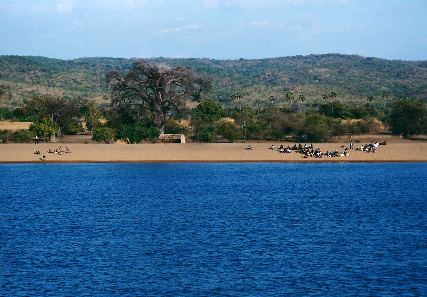 Mozambico - coast of lake malawi, with a giant babob